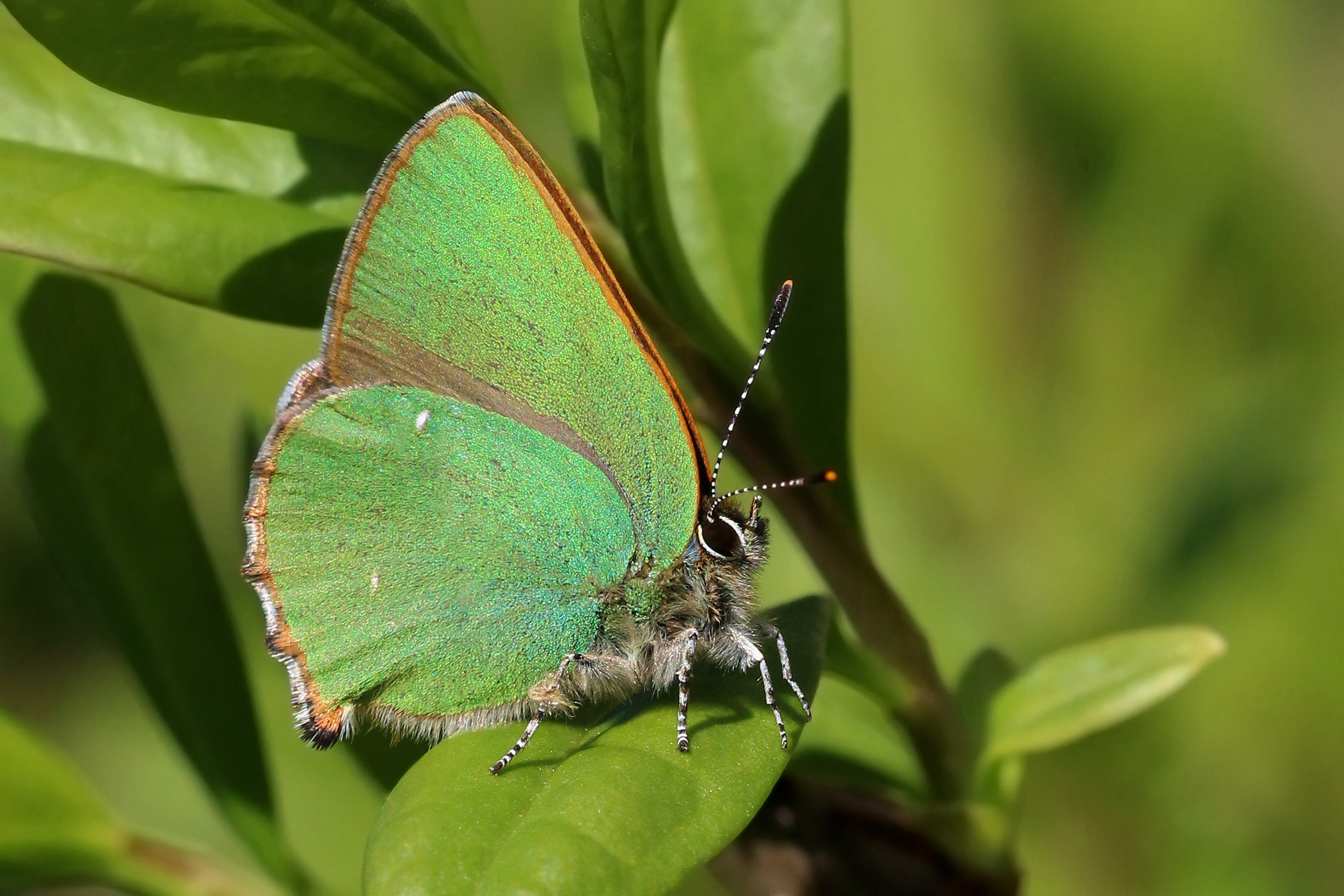 Green hairstreak (Callophrys rubi), Aston Upthorpe, Oxfordshire